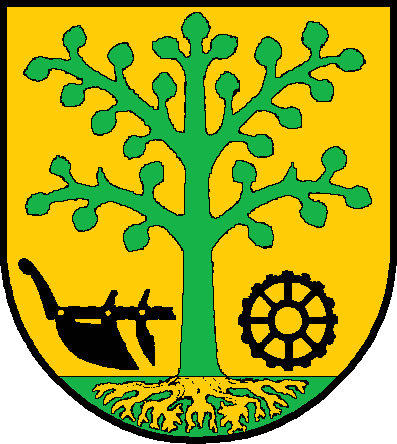 Coat of arms of the municipality Hoisdorf in Schleswig-Holstein, Germany.